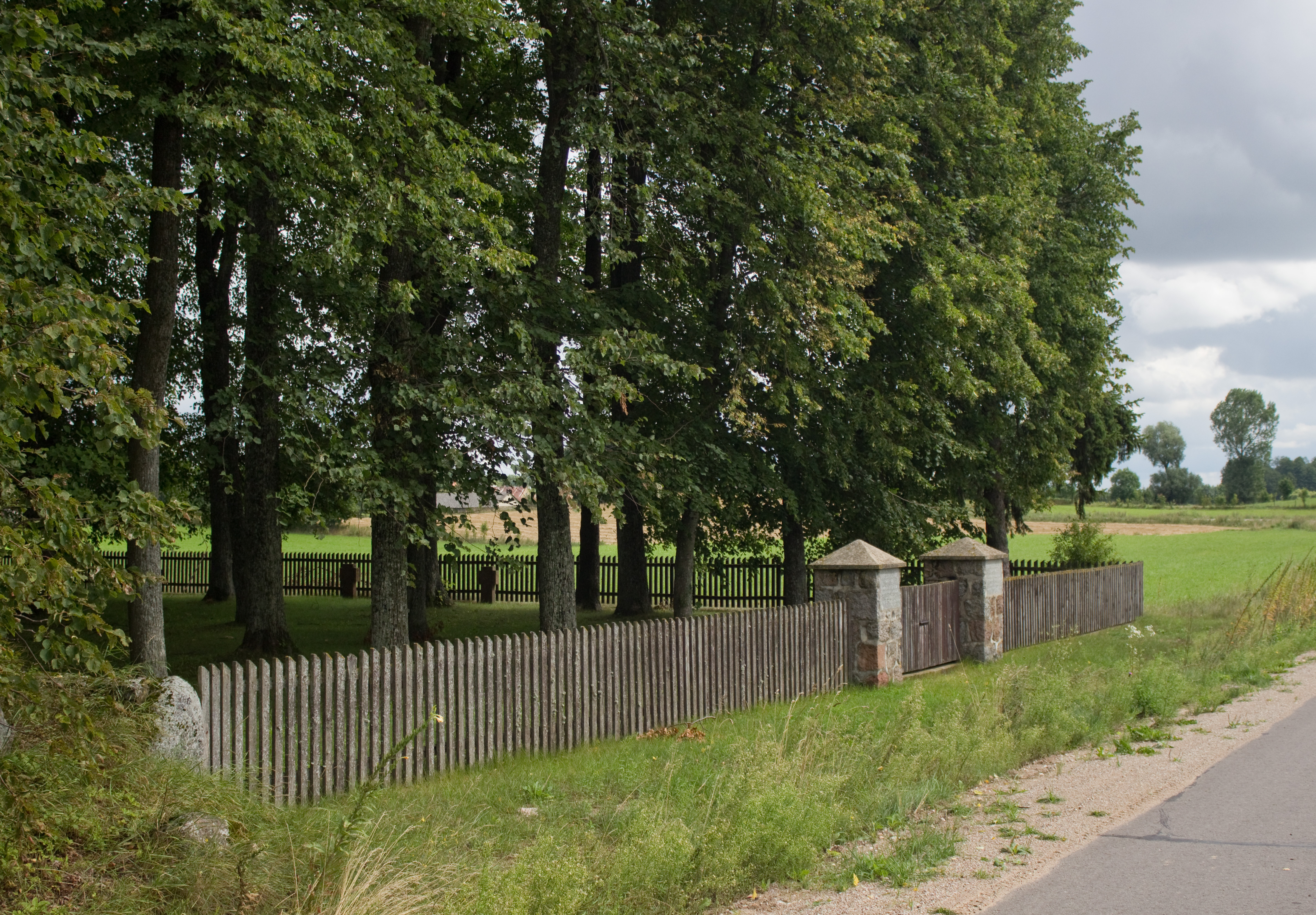 Cemetery, Markowskie, gmina Wieliczki, powiat ełcki, Warmian-Masurian Voivodeship